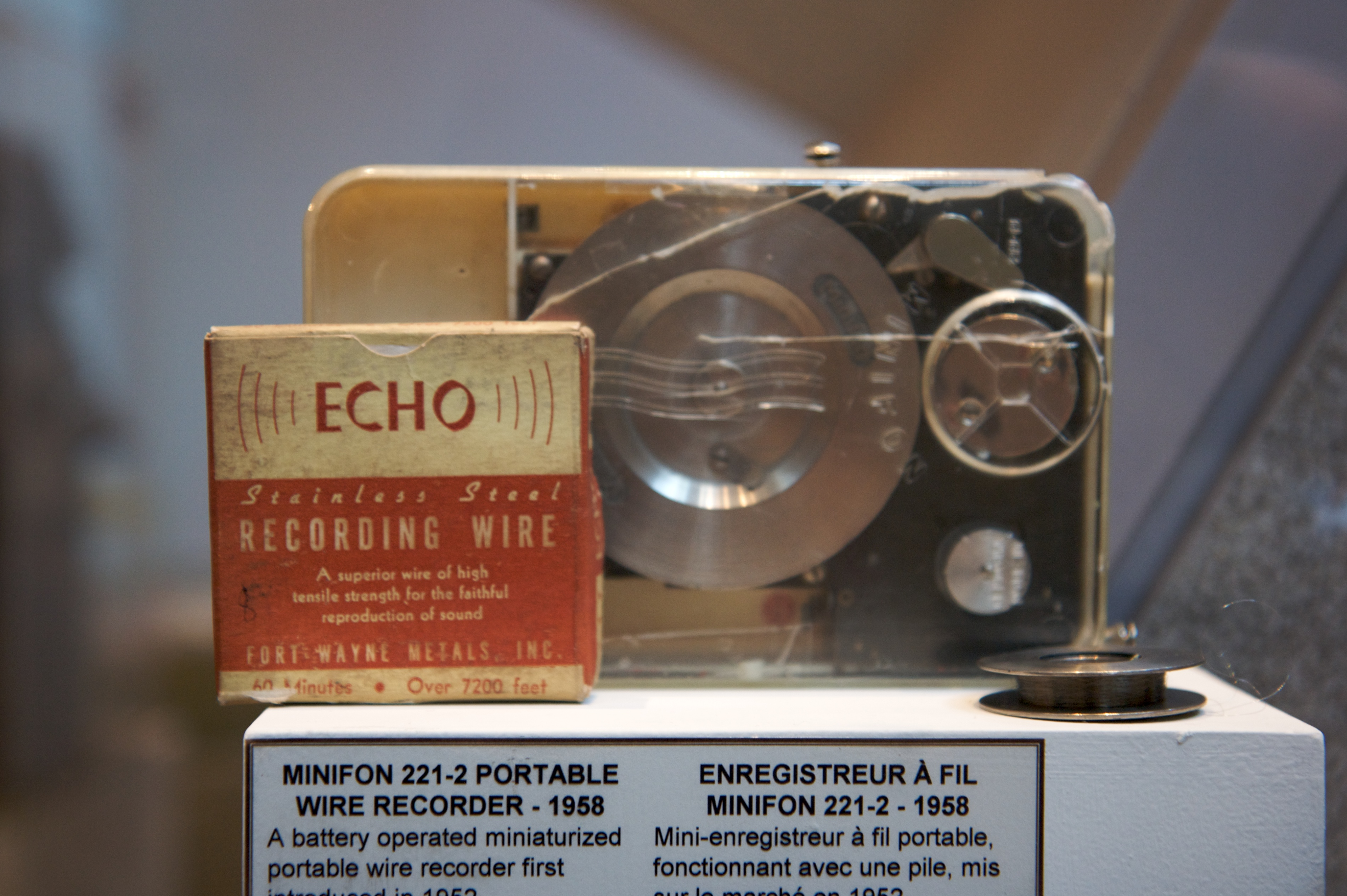 Minifon 221-2 Portable Wire Recorder - 1958 exhibited at CBC Museum